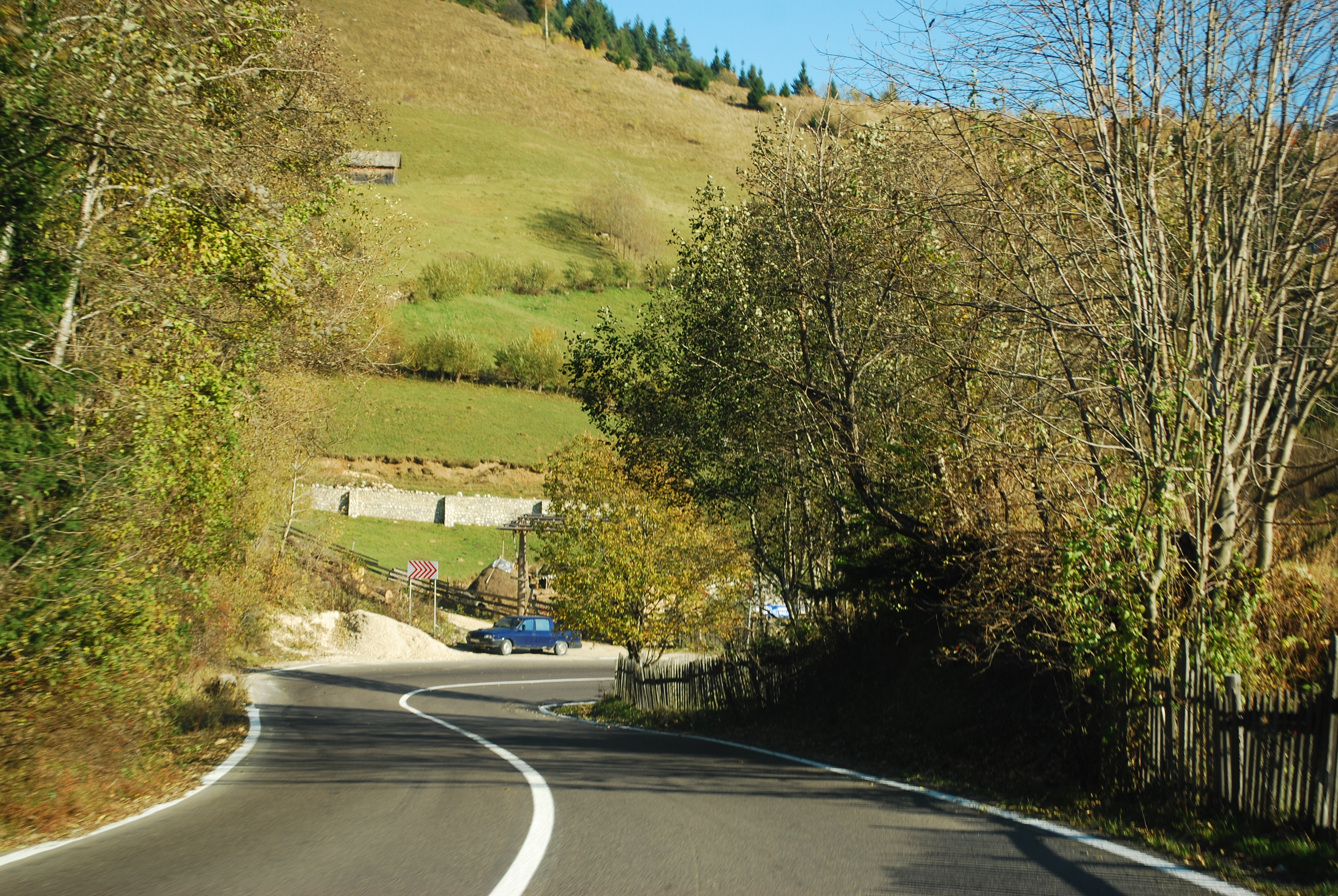 Romanian national road DN73 in Argeş County